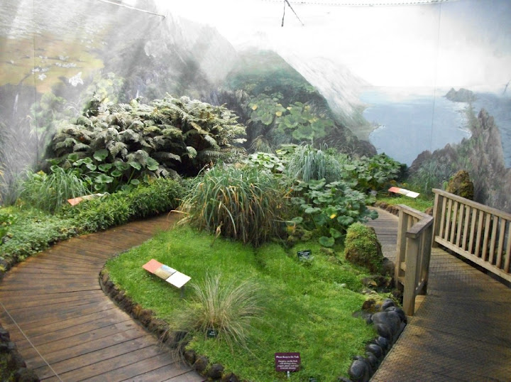 Photo of Antarctic Garden at Hobart Botanical Garden